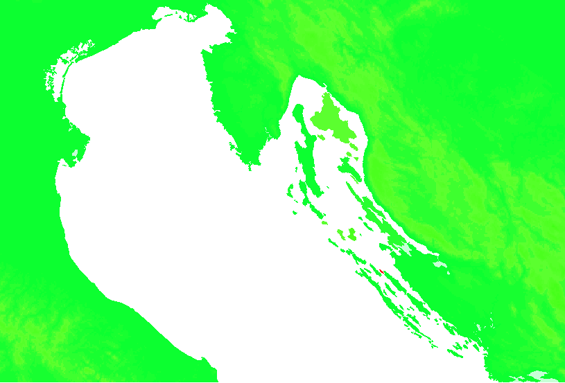 Island of Croatia Croatia - Rivanj.PNG